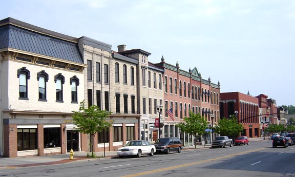 Delaware Ohio - Street Scene Looking S. 05-28-07 By: Mike Sharp.